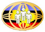 Confederation of free trade union of Ukraine